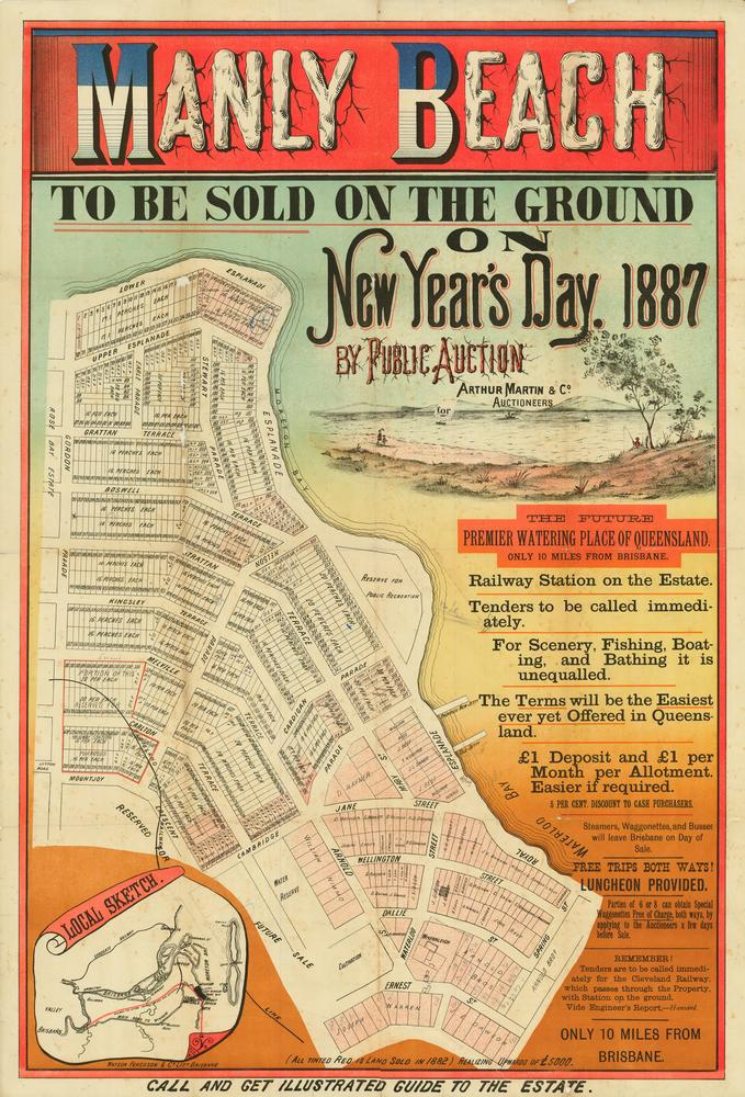 Estate map of Manly Beach to be auctioned by Arthur Martin & Co. on New Year's Day in 1887.